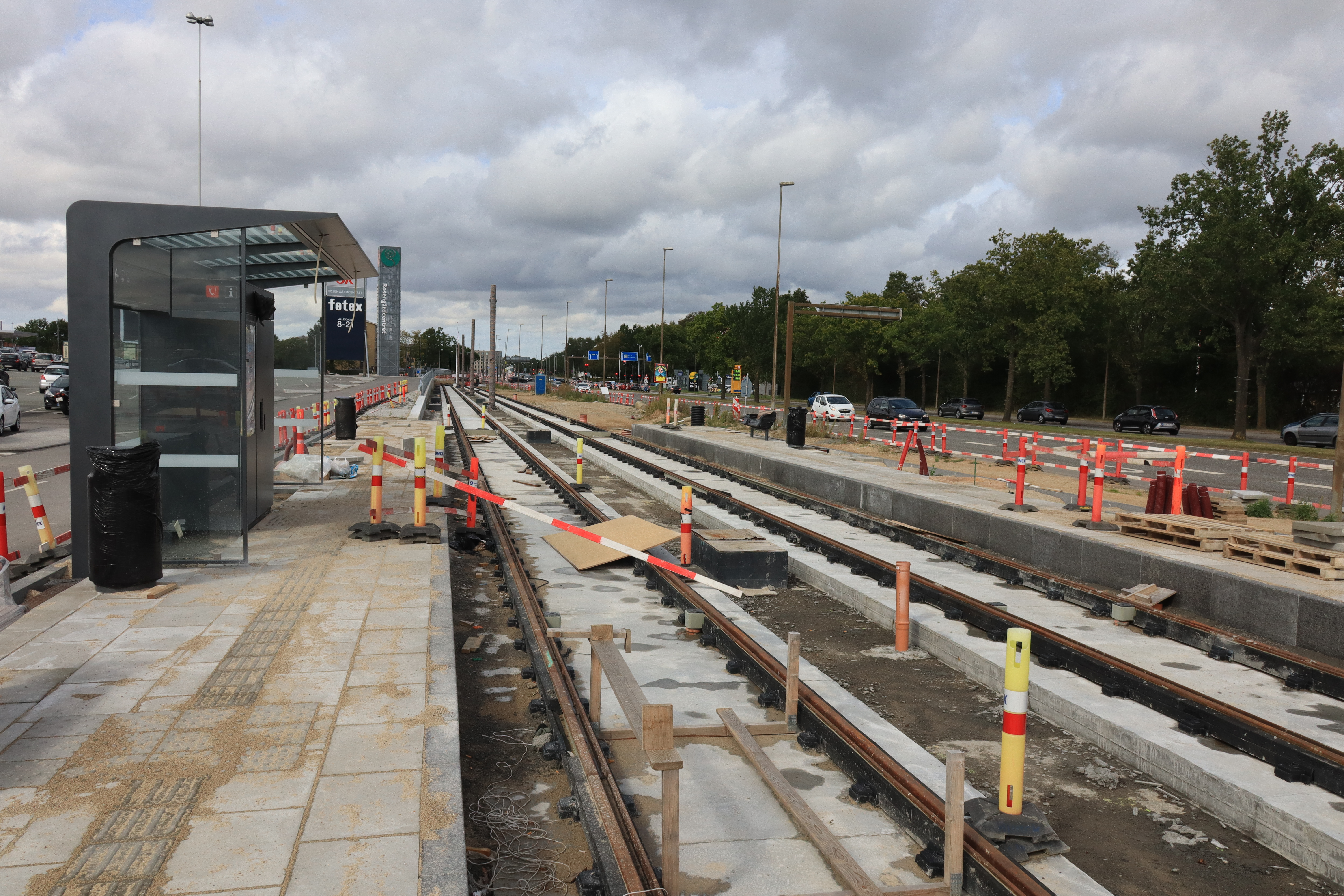 Odense Letbane, Rosengårdcentret lightrail station under construction in September 2019